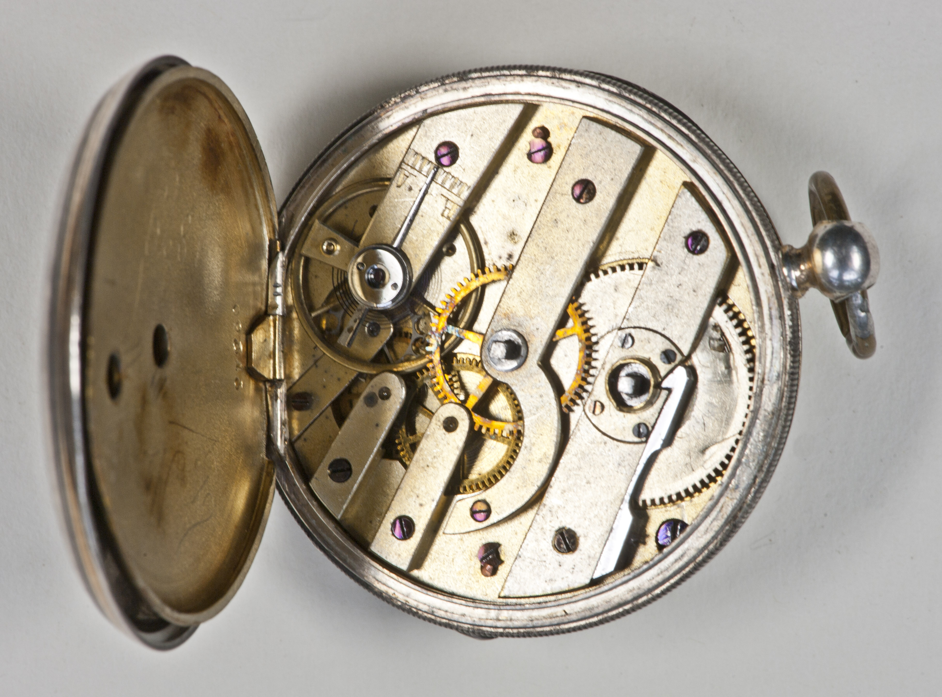 Pocket watch